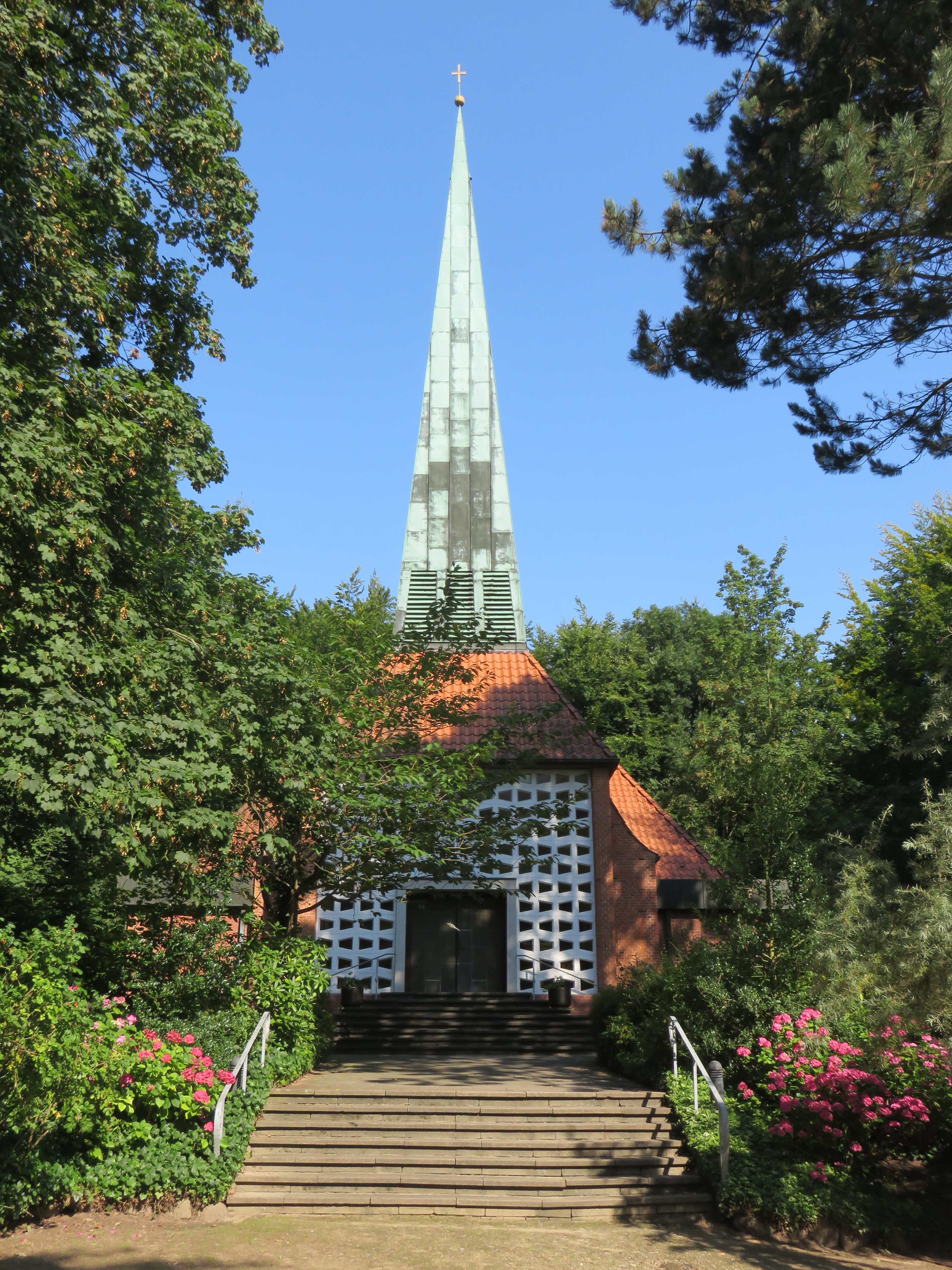 Waldkirche, Timmendorfer Strand